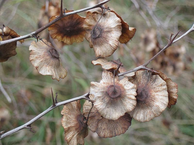 Paliurus spina-christi (Jerusalem Thorn, Garland Thorn, Christ's Thorn, or Crown of Thorns), Pietranico, Italy